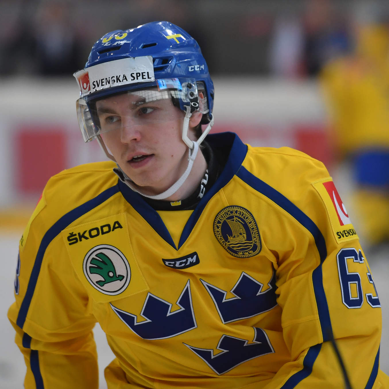 6/4/2017, Vienna, Austria, Sport, Ice Hockey, Friendly match Austria vs Sweden.